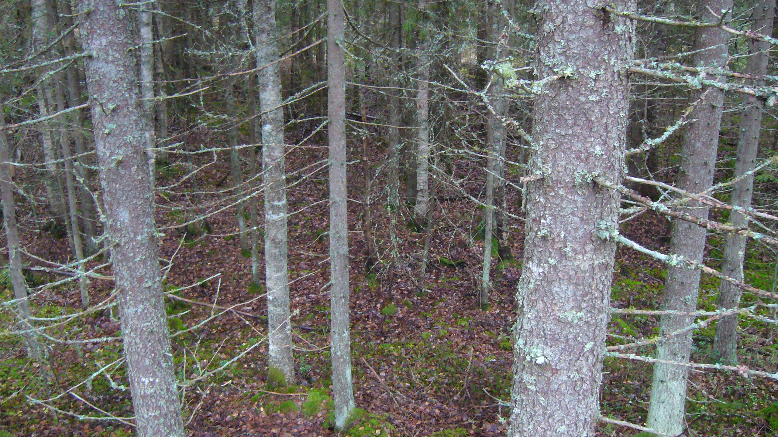 Forest in southwest Jalasjärvi, Finland.